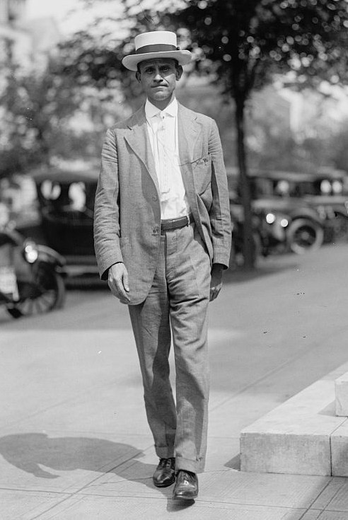 Asbury Francis Lever, LOC hec-12496, Harris and Ewing Collection, cropped This image is available from the United States Library of Congress's Prints and Photographs division under the digital ID hec.12496.This tag does not indicate the copyright status of the attached work. A normal copyright tag is still required. See Commons:Licensing for more information. .